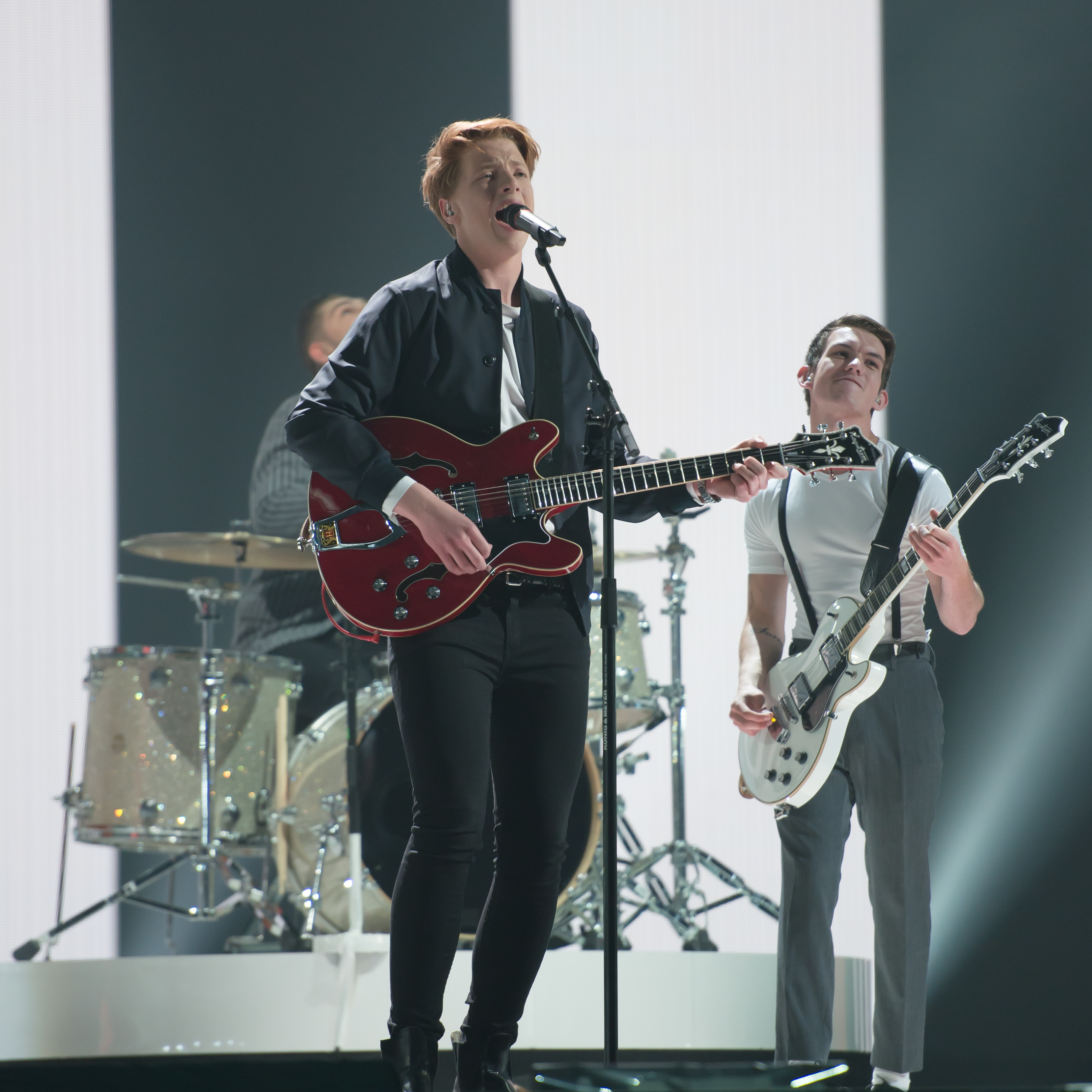 Eurovision Song Contest Vienna 2015: Anti Social Media, Denmark